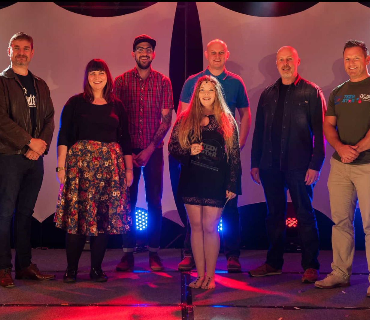 TeenStar Champion 2015